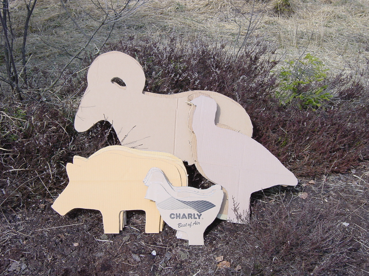 Archery targets according to IHMSA regulations